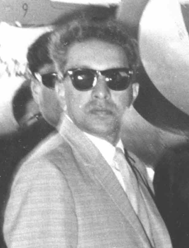 The King of Nepal, Mahendra Bir Bikram Shah Dev during his visit in Israel, 1958.